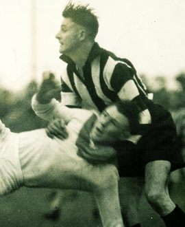 Photo of Keith Kent in 1933